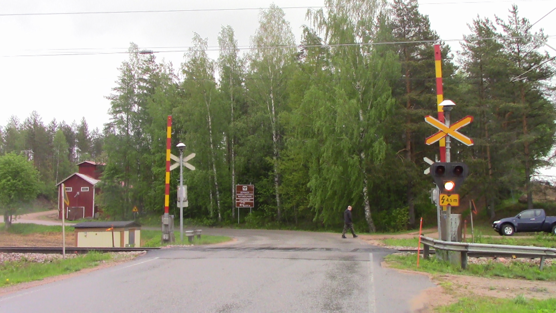 Finnish regional road 369 at Konka level crossing in Kouvola. The road runs from Jaala to Tuohikotti.